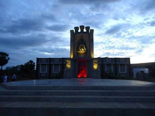 mulivaikkal memorial in night effect